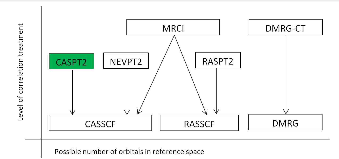 inspired by the journal article "Theoretical calculations of physico-chemical and spectroscopic properties of bioinorganic systems: current limits and perspectives"